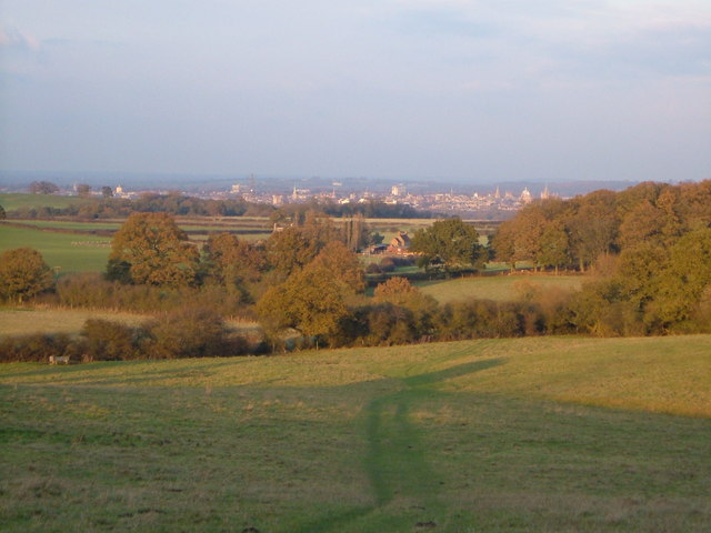 Old Golf Course, Boar's Hill. The Oxford Preservation Trust now owns the golf course, which forms an amphitheatre sloping down to Chilswell Farm Cottages in the centre of the picture on the edge of the square. The dramatic backdrop to this square is the famous view of Oxford city centre, 4 km from the camera. Looking ENE at 3:13 pm.